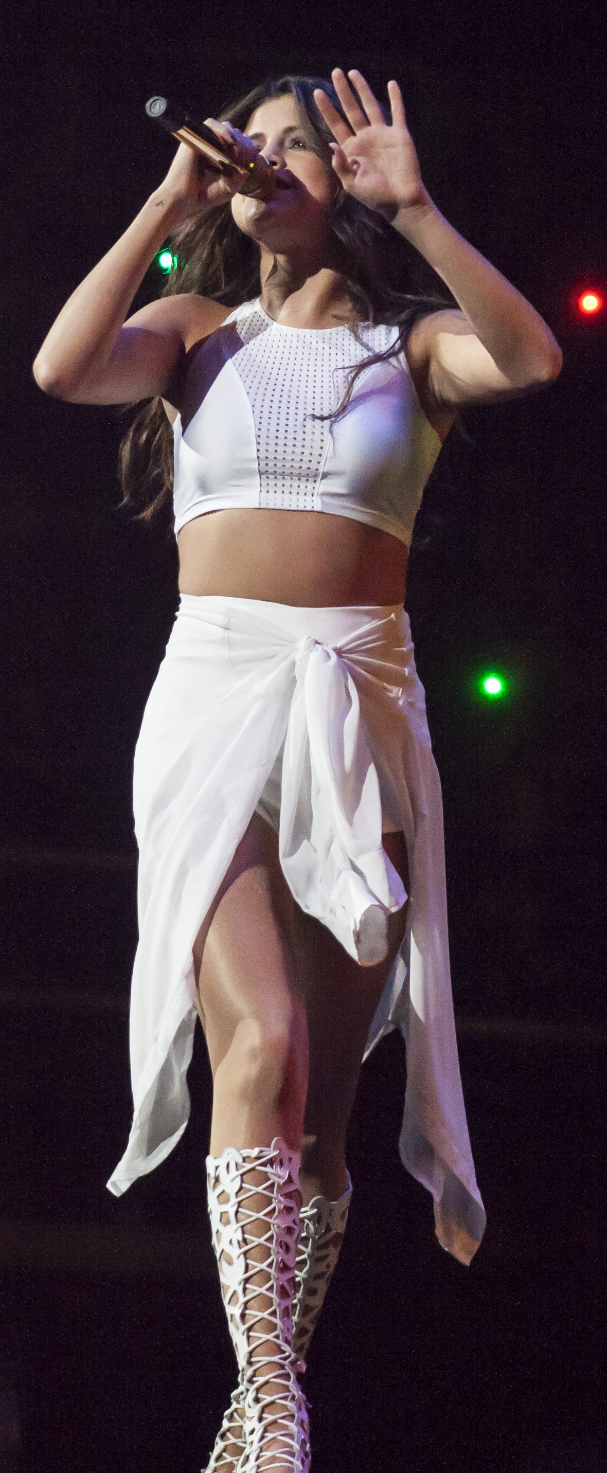 Selena Gomez in concert at the SAP Center in San Jose, CA, November 10, 2013